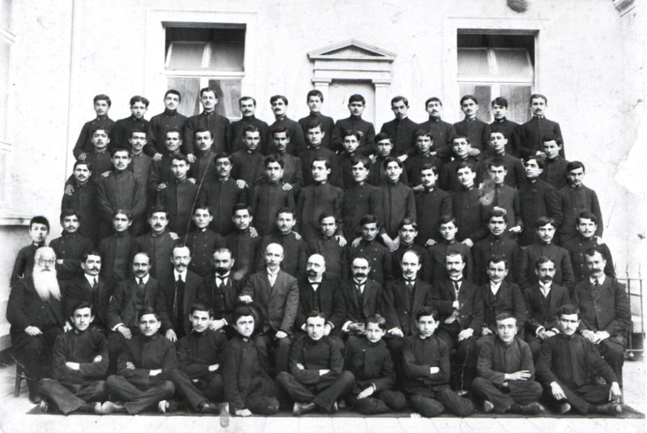 Pontian Greek students and teachers in the Phrontasterion of Trebizond, (modern Trabzon, Turkey)